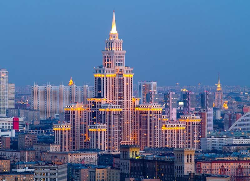 Triumph Palace in Moscow